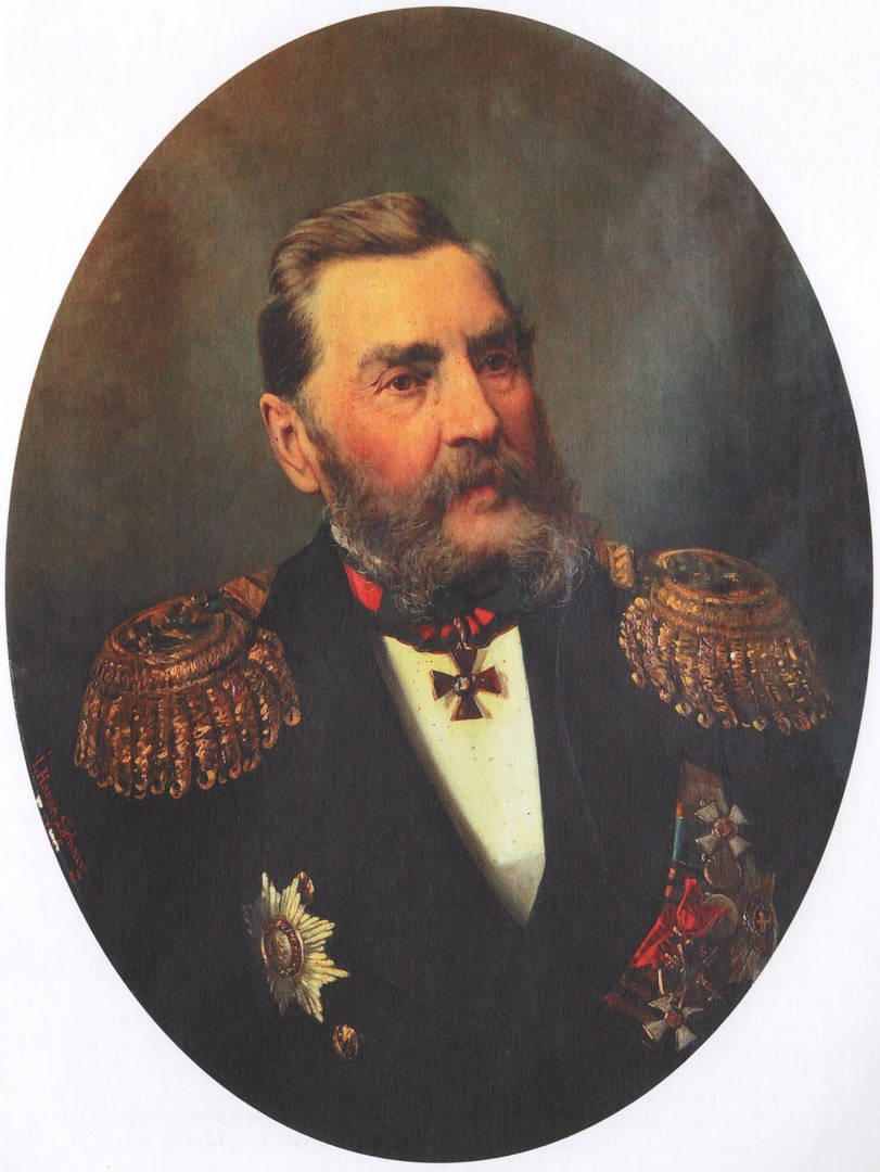 Voevodskiy Stepan Vasilevich